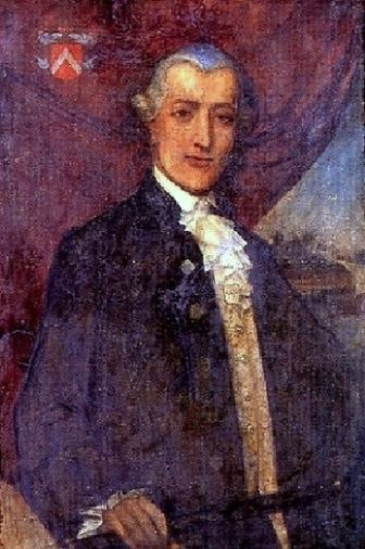 Iman Willem Falck portrayed by a student of the Rijksacademie van Beeldende Kunsten in 1908